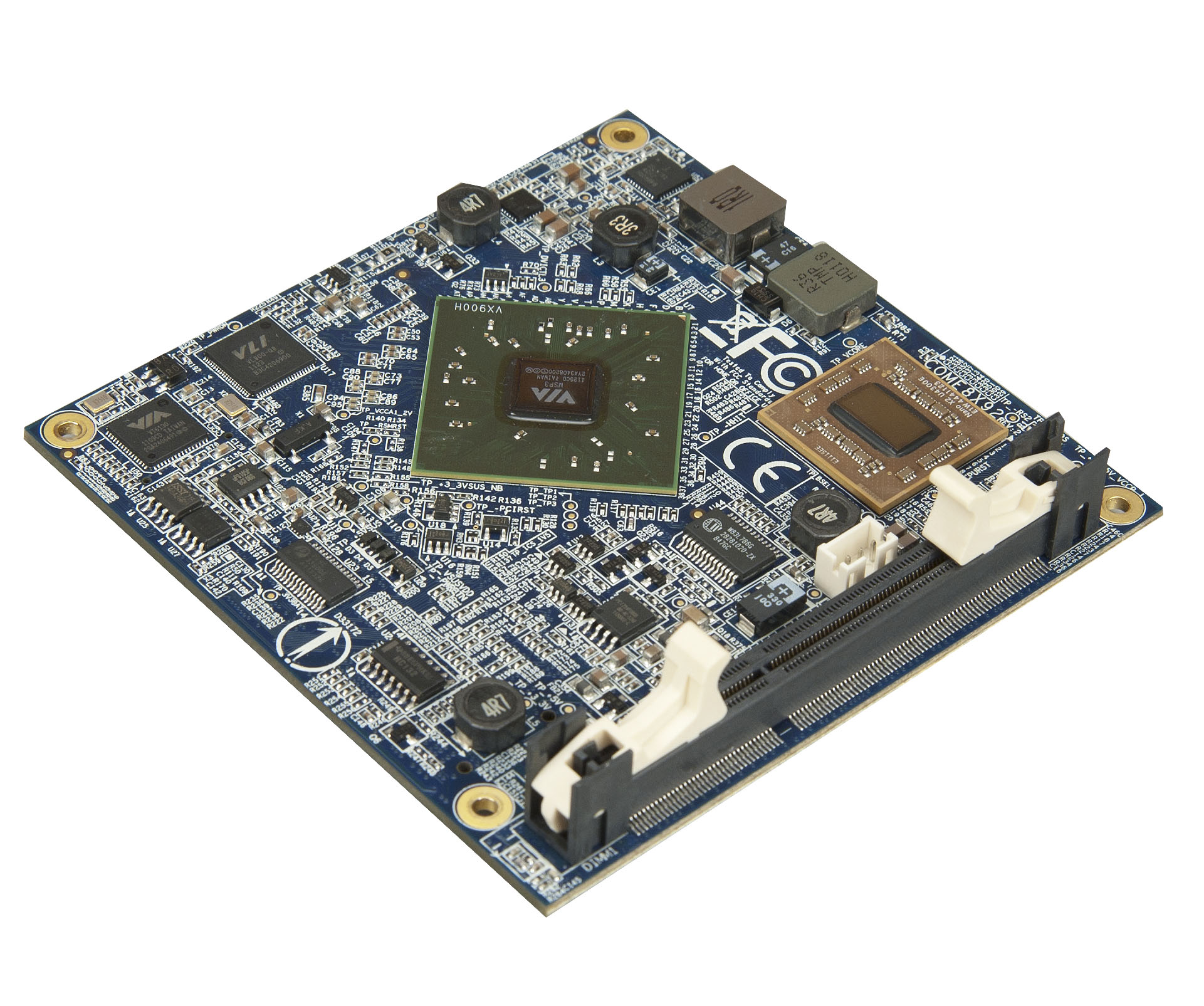 The VIA COMe-8X92 module is based on the industry standard COM Express Compact form factor, measuring just 95mm x 95mm. Shown here from an angle.